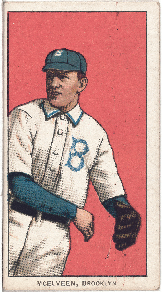 Title: Pryor McElveen, Brooklyn Superbas, baseball card portrait Abstract/medium: 1 print : relief with halftone, color.